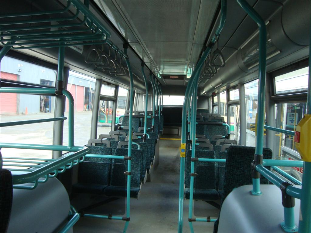 Scania Omnicity with GHA Coaches Wrexham Interior